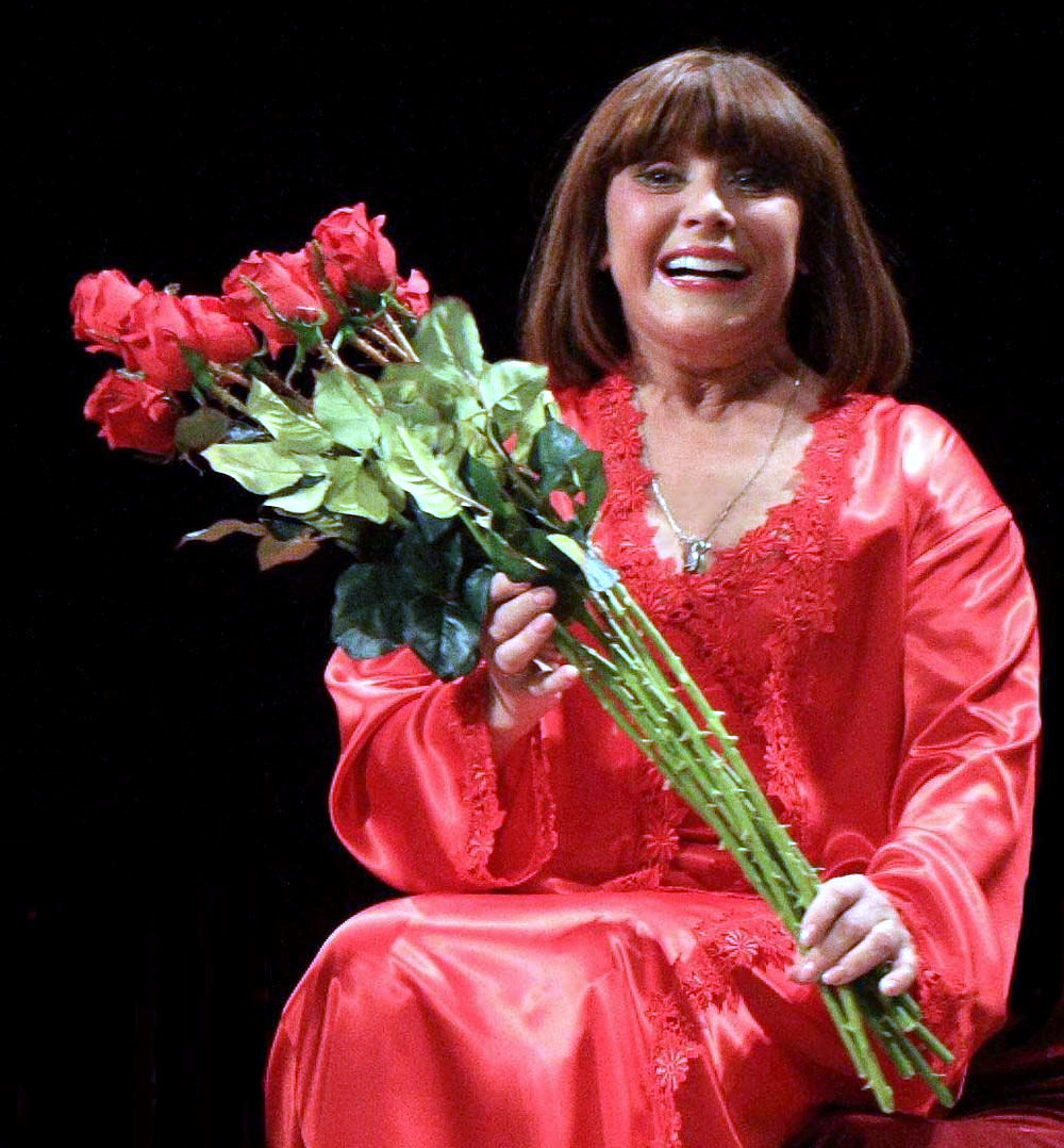 Natalya Vladimirovna Varley - is a Soviet and Russian film and theater actress, RSFSR Honoured artist (1989).